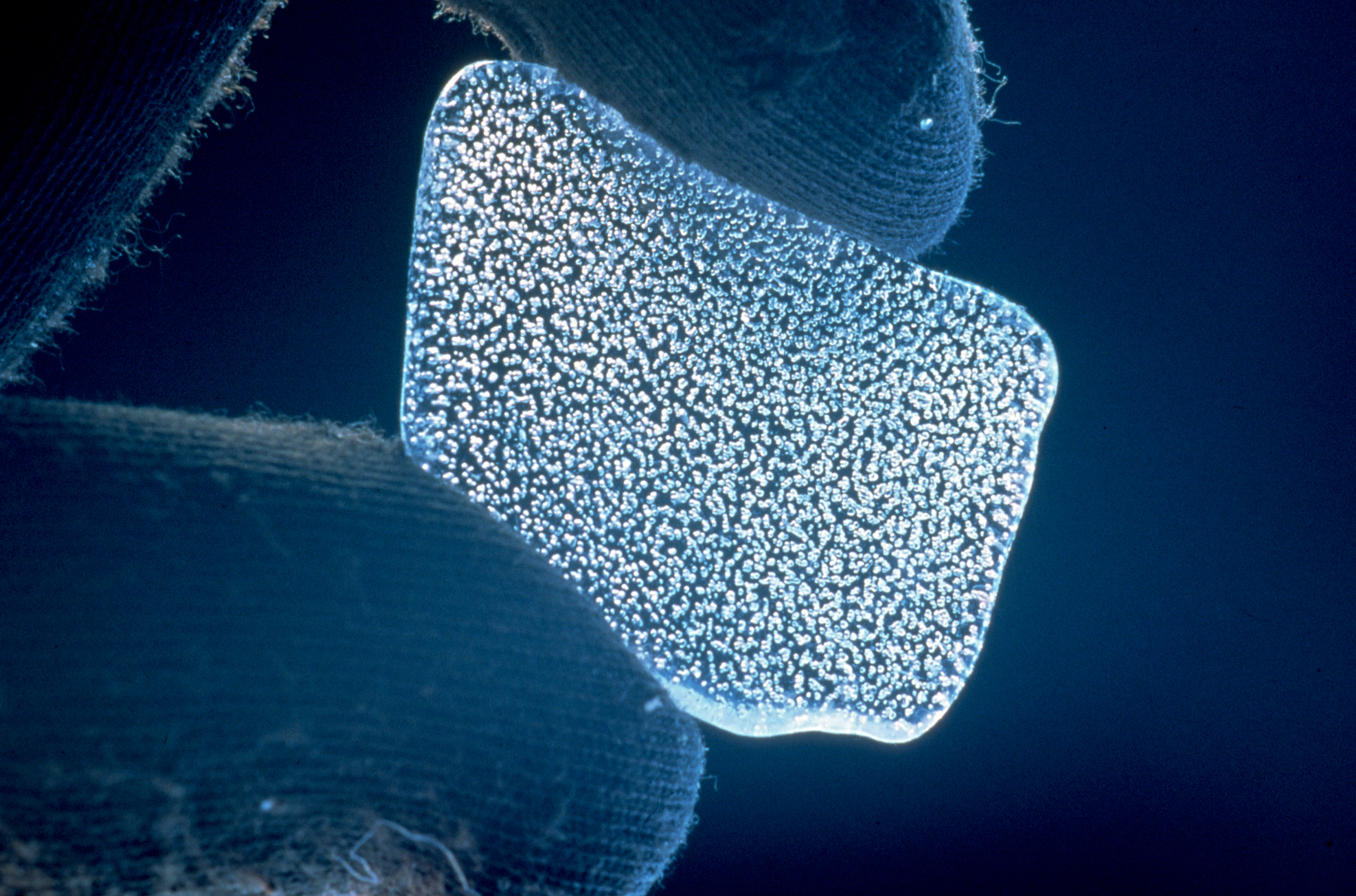 A sliver of Antarctic ice revealing the myriad enclosed tiny bubbles of air. Air bubbles trapped in ice hundreds or even thousands of years ago are providing vital information about past levels of greenhouse gases in the Earth's atmosphere.